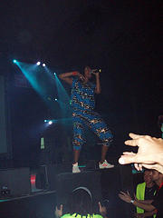 M.I.A. in concert - Sonar 2005.